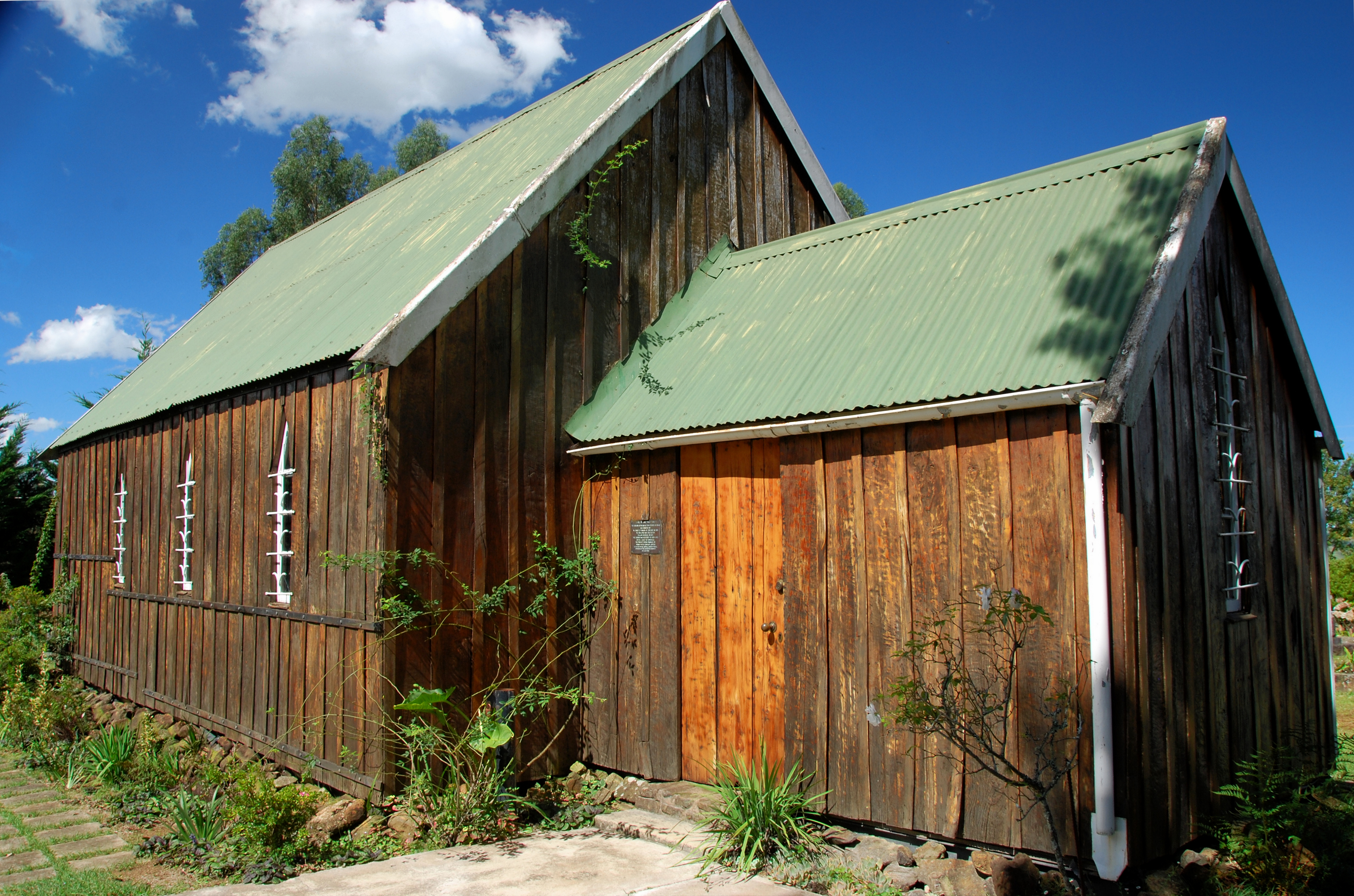 The Old Yellowwood Church in Bulwer is a historic church, built in 1885